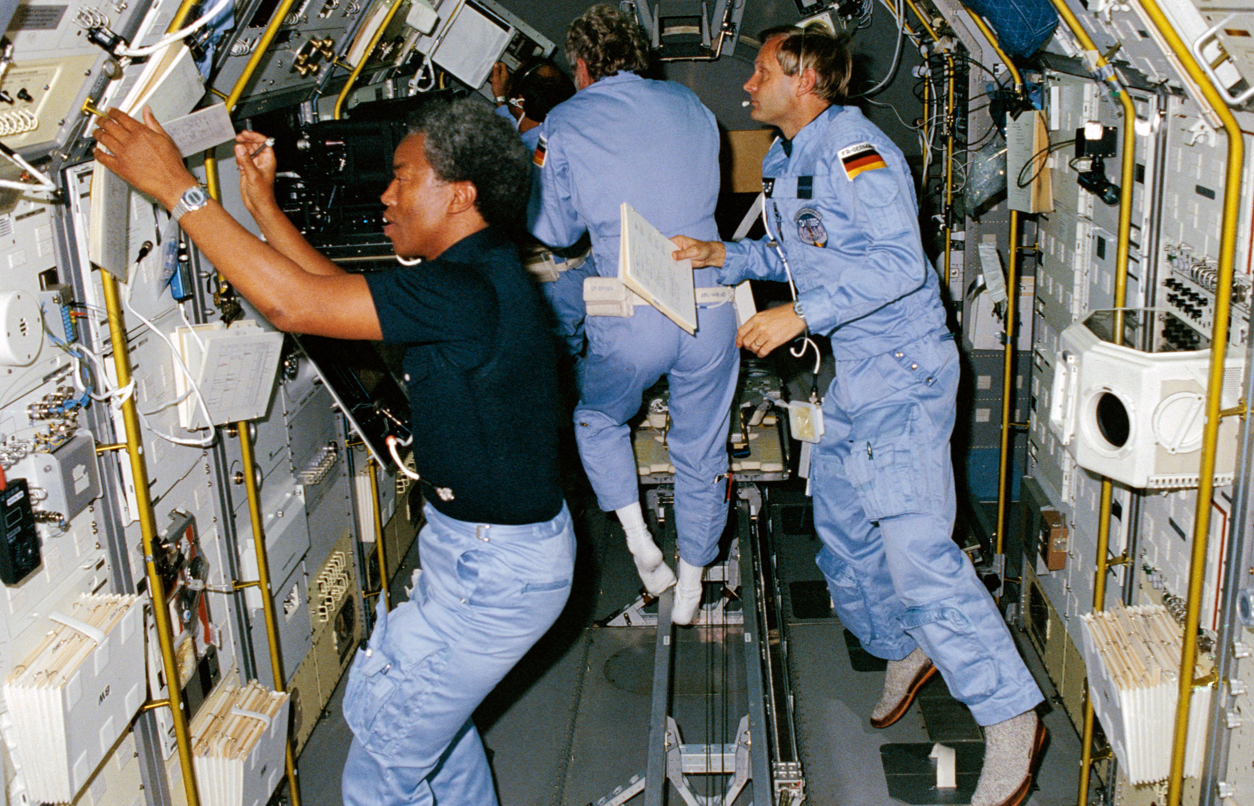 STS 61-A crewmembers in Spacelab D-1 science module Mission specialist Guion S. Bluford prepares to perform a physics experiment onboard the D-1 science module in the cargo bay of the Shuttle Challenger. In the background, three European payload specialists busy themselves with experiment chores: (l.-r.) Wubbo J. Ockels (partially obscured), Reinhard Furrer, and Ernst Messerschmid.